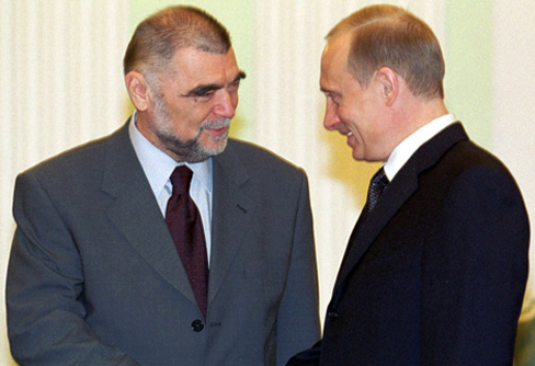 THE KREMLIN, MOSCOW. President Putin with Croatian President Stepan Mesic.